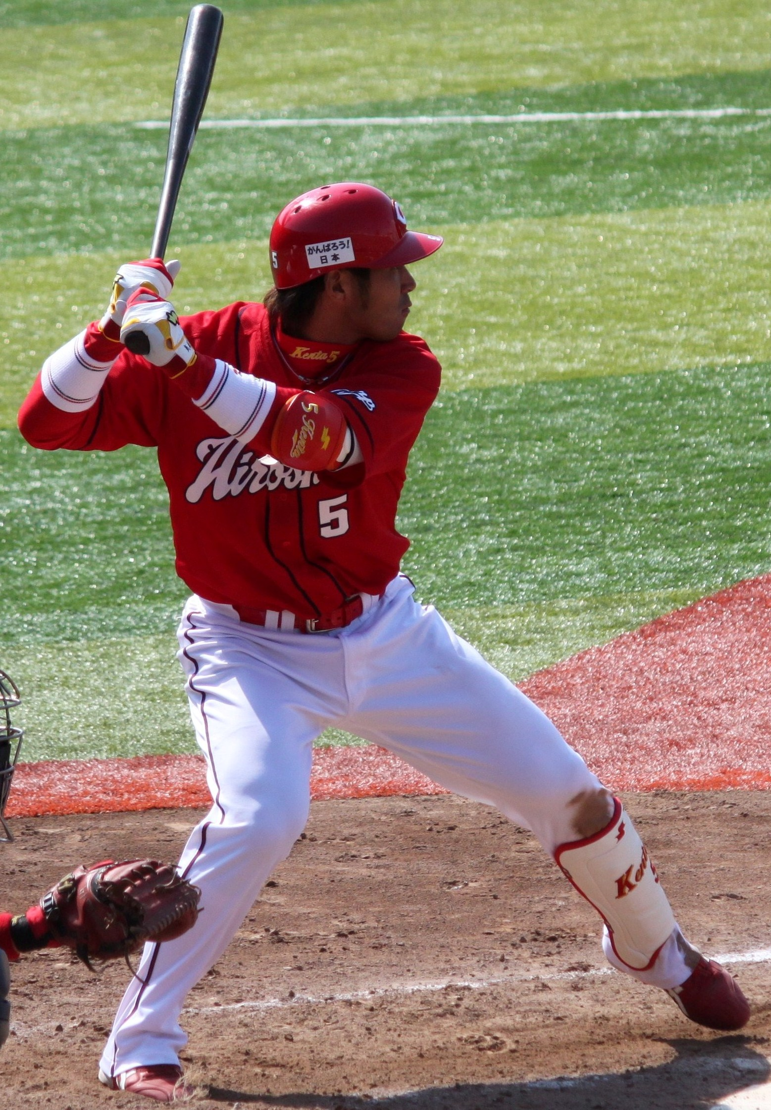 Kenta Kurihara, infielder of the Hiroshima Toyo Carp, at Yokohama Stadium